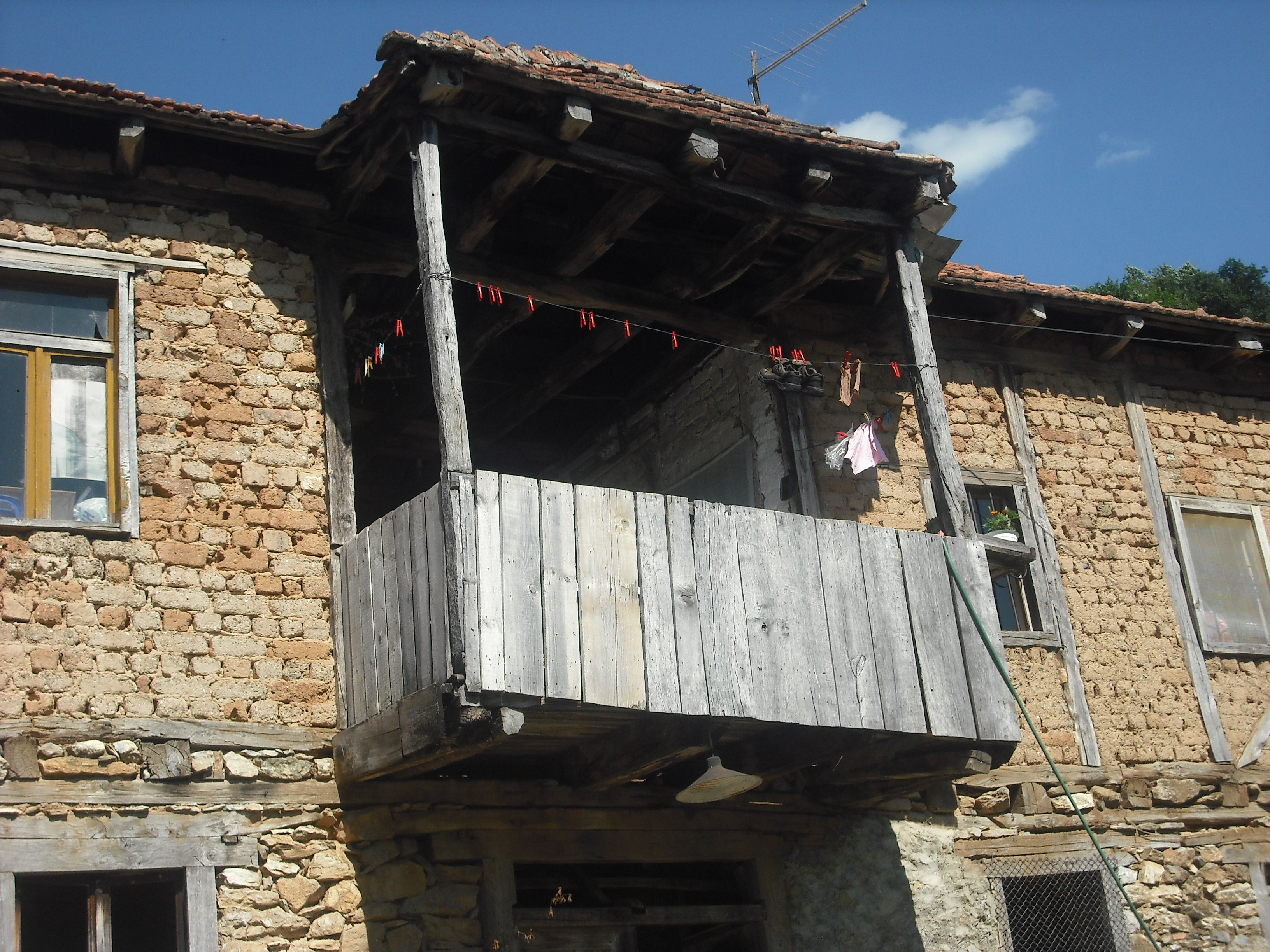 A balcony of an old village house, Mramorec, Republic of Macedonia